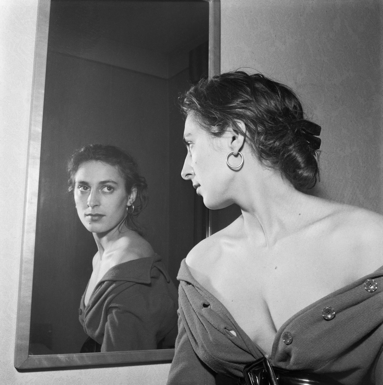 Porträtt av Katarina Taikon, 1953. Bildnummer: AB 1157, Stadsmuseet i Stockholm